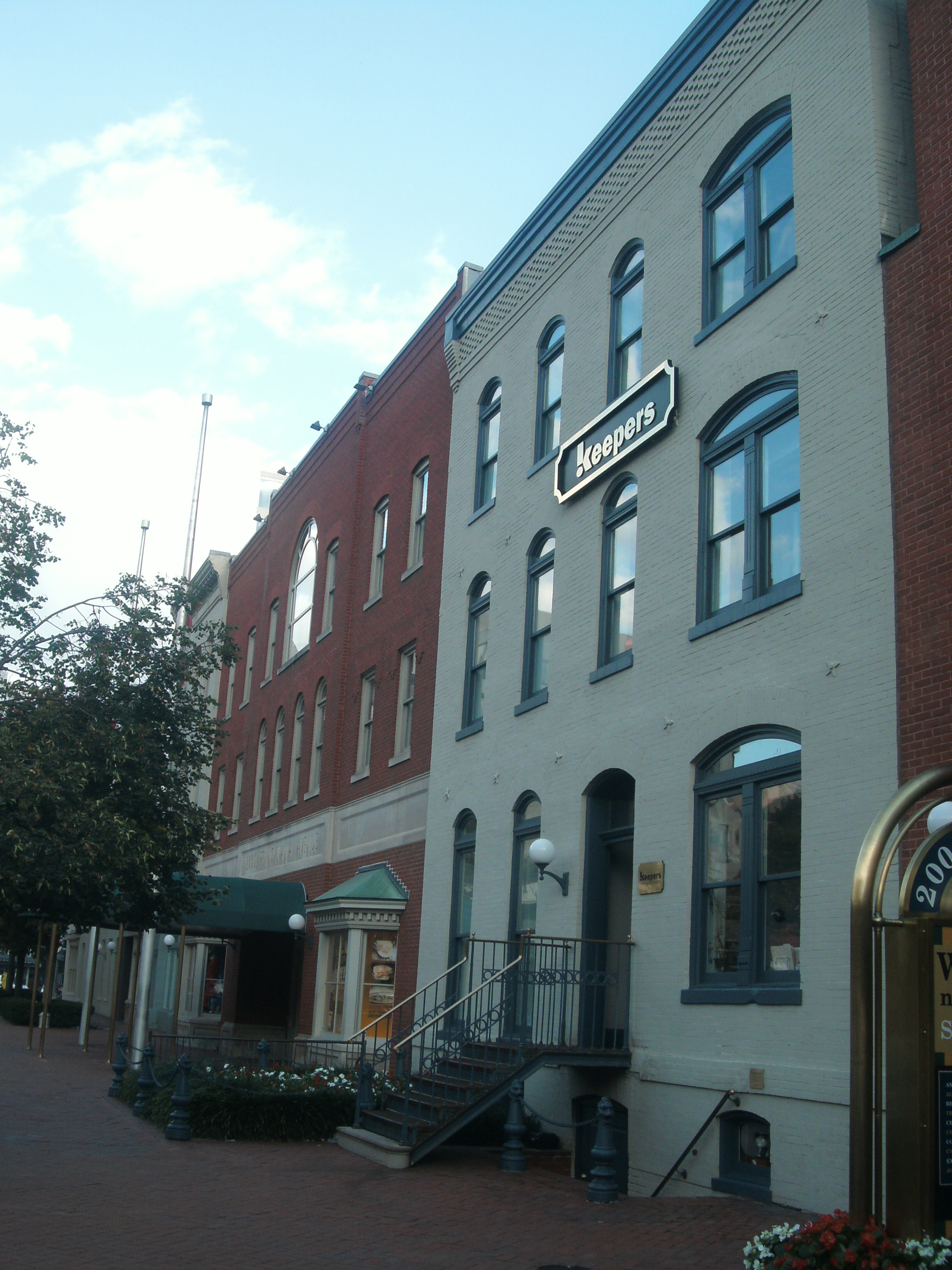 2000 Block of Eye Street, NW, GWU, South side of 2000 block of Eye St., NW. George Washington University